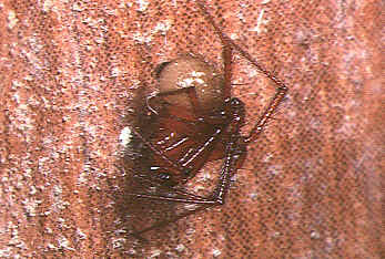 male Nesticodes rufipes from Okinawa.